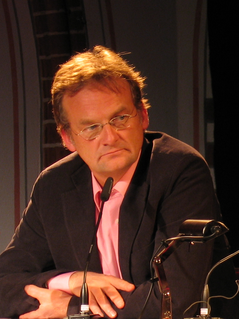 The TV journalist Frank Plasberg during a presentation on Lit.Cologne in Cologne, Germany